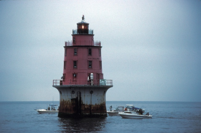 BUILT IN 1913 AND NAMED AFTER A RIVER PILOT WHO DROWNED IN A STORM; CAISSON TYPE